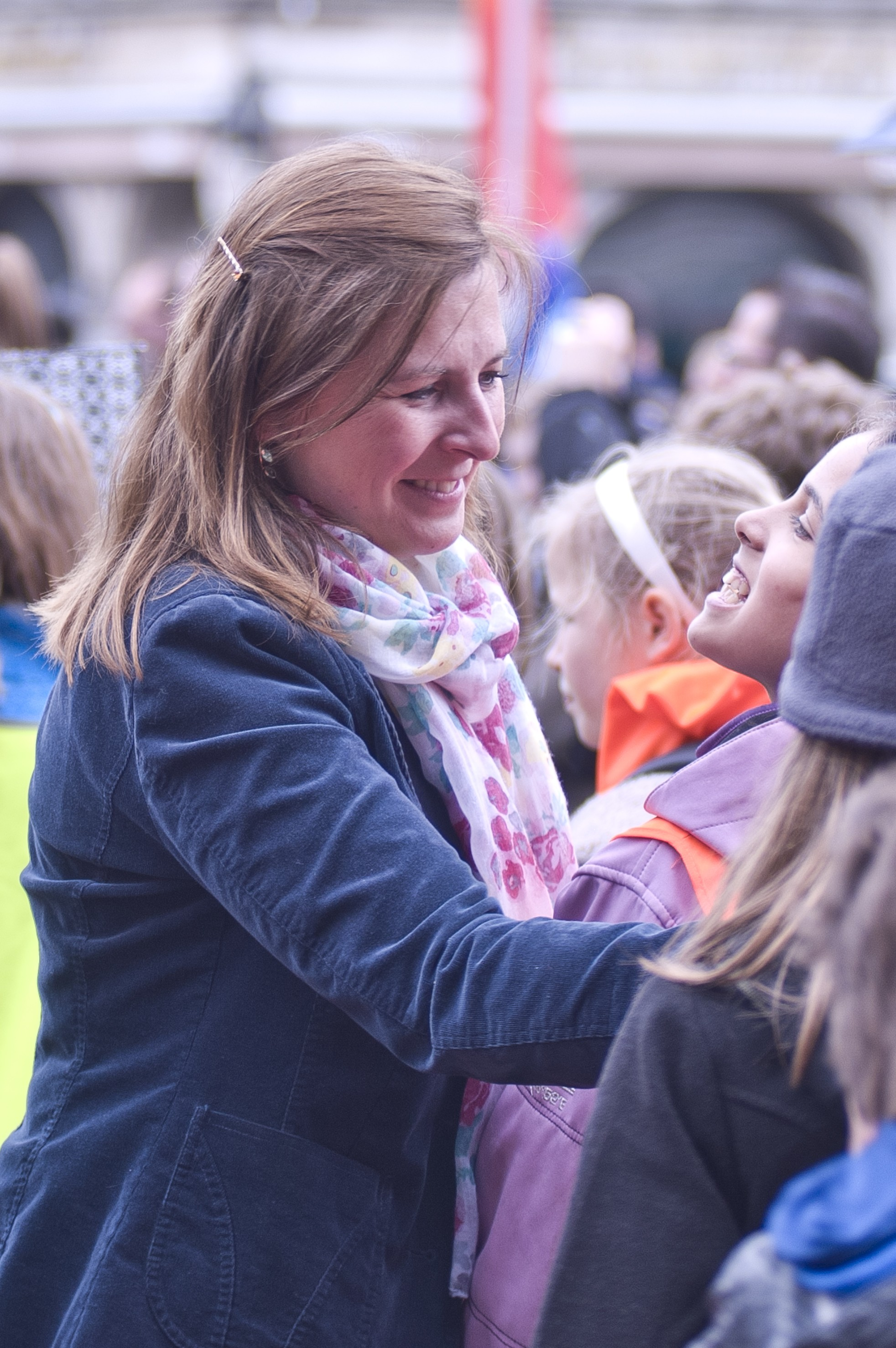 Güler Turan als schepen